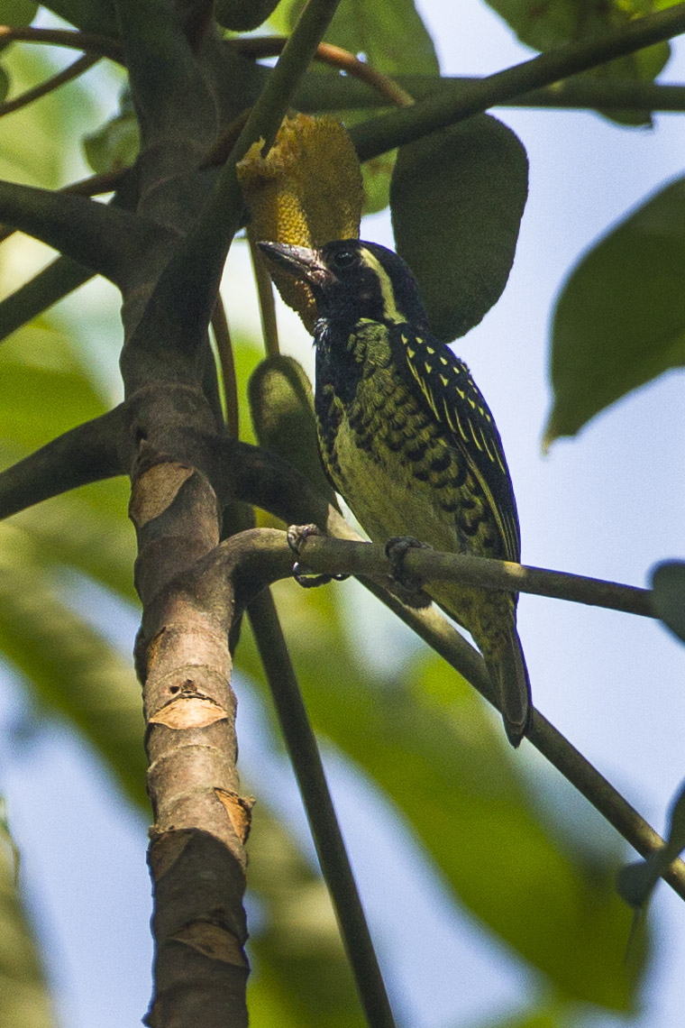 Original caption: "Yellow-spotted Barbet - Ghana_S4E1896" (= Buccanodon duchaillui)